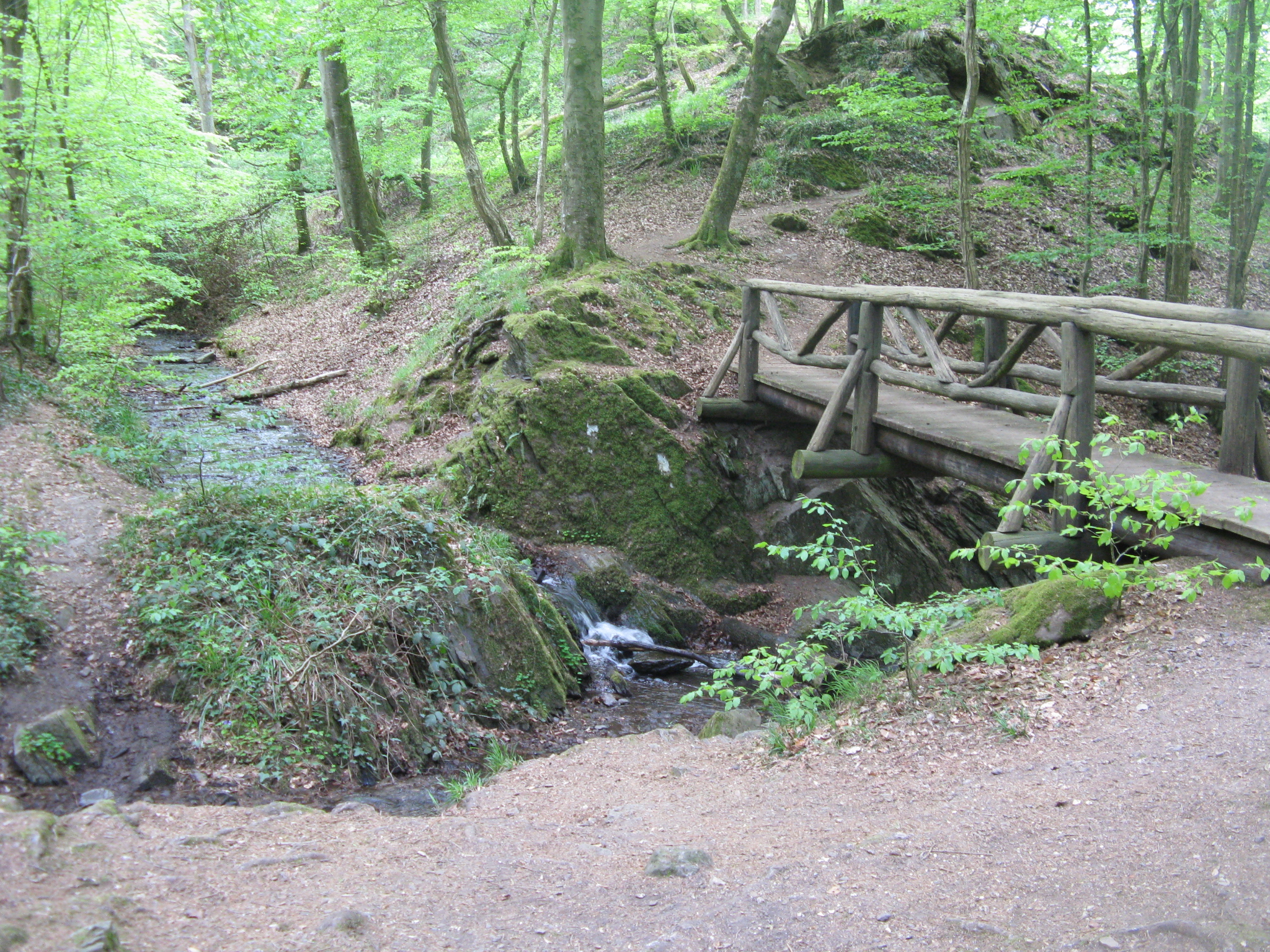 Konder Valley region, Germany Region Kondertal/Deutschland (Zusammenfluss Remstecker Bach/Kleinbornsbach)